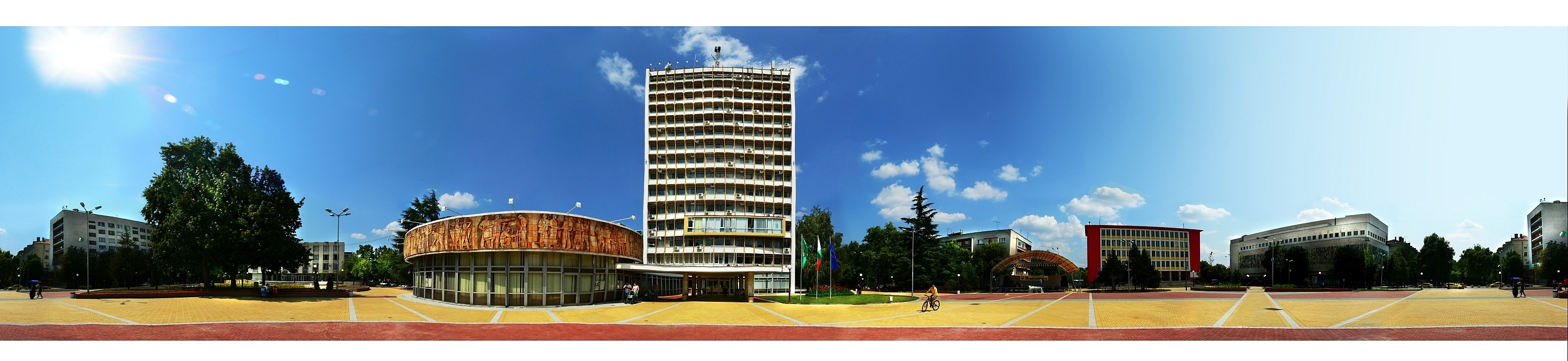 Dimitrovgrad. The downtown.